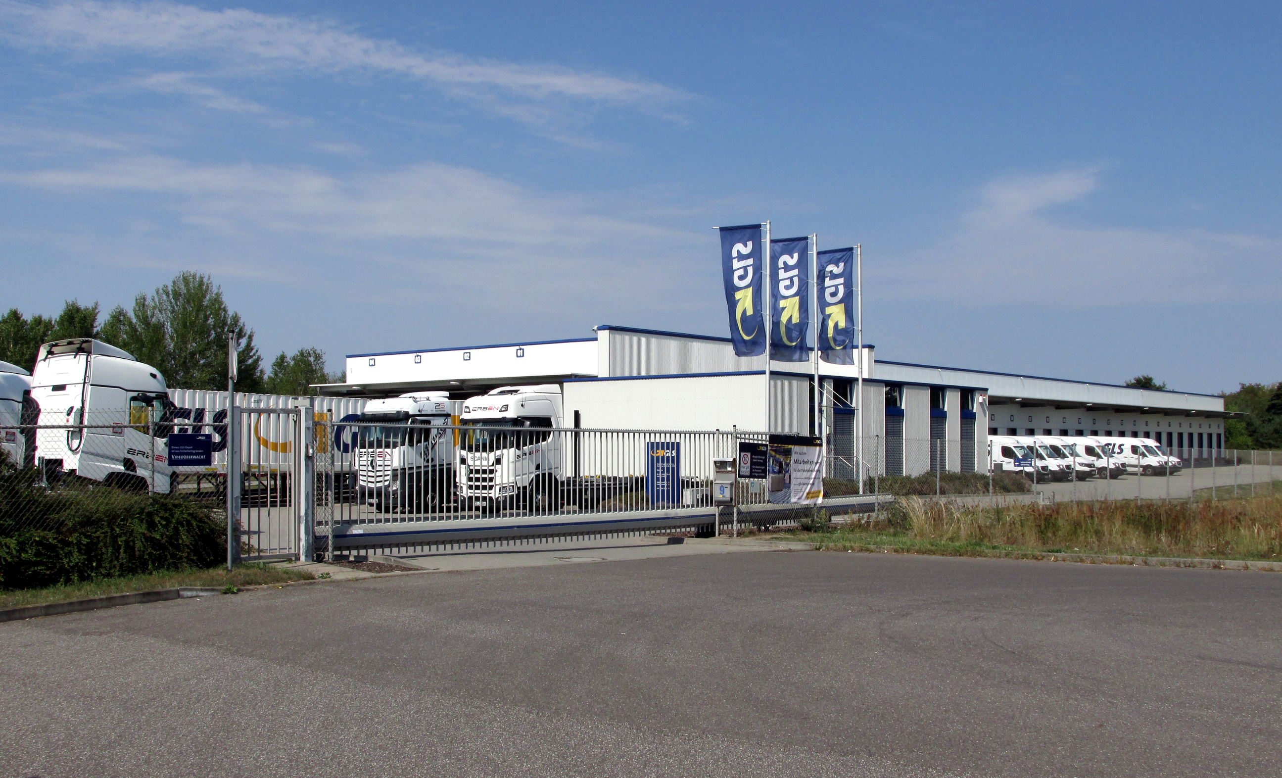 Depot 14 of GLS Germany, An der Autobahn 9 in Cottbus-Sachsendorf.